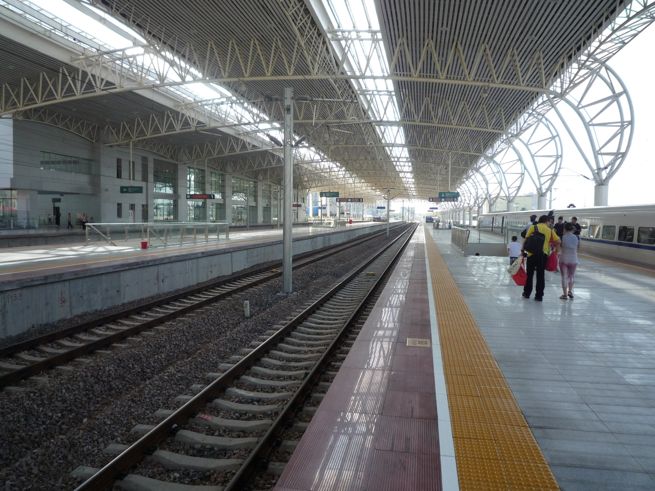 West Shanghai railway station platform